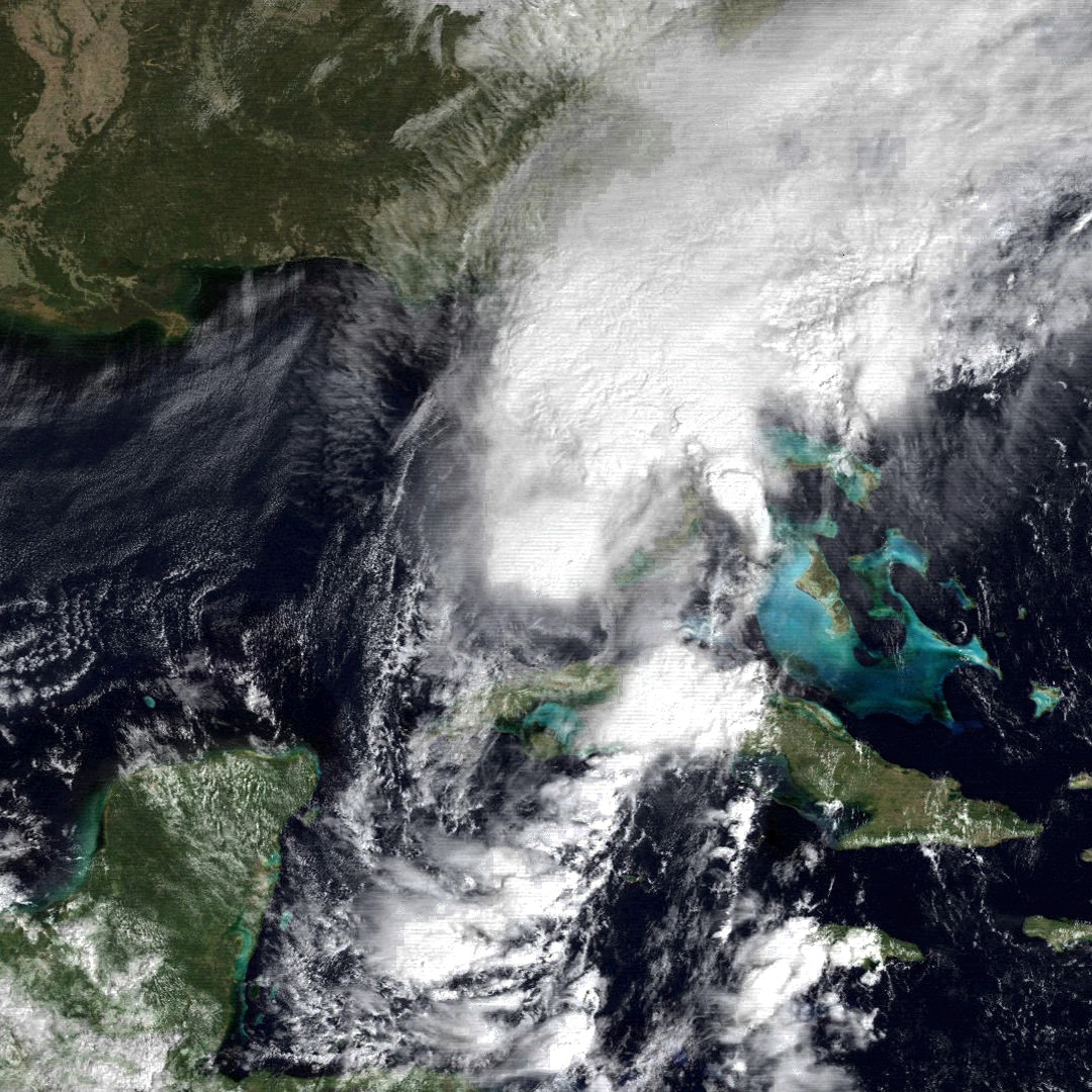 Hurricane Floyd at peak intensity near the Florida Keys on October 12, 1987